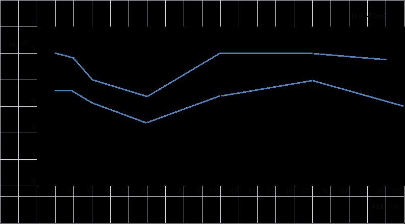 Figure 1, the Simulated Radiation Dose of a Single Electron in Water, where the Ionization Energy of Water at ~10eV shows a Resonant Enhancement in Dose. The Upper and Lower Curve stand for the Short and Long Limiting Ranges Respectively. Note that in vacuum, the Kinetic energy mev2 =1eV implies an electron velocity of 6x107 cm/sec, or 0.2% of the speed of light.